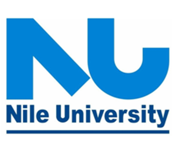 NU Logo